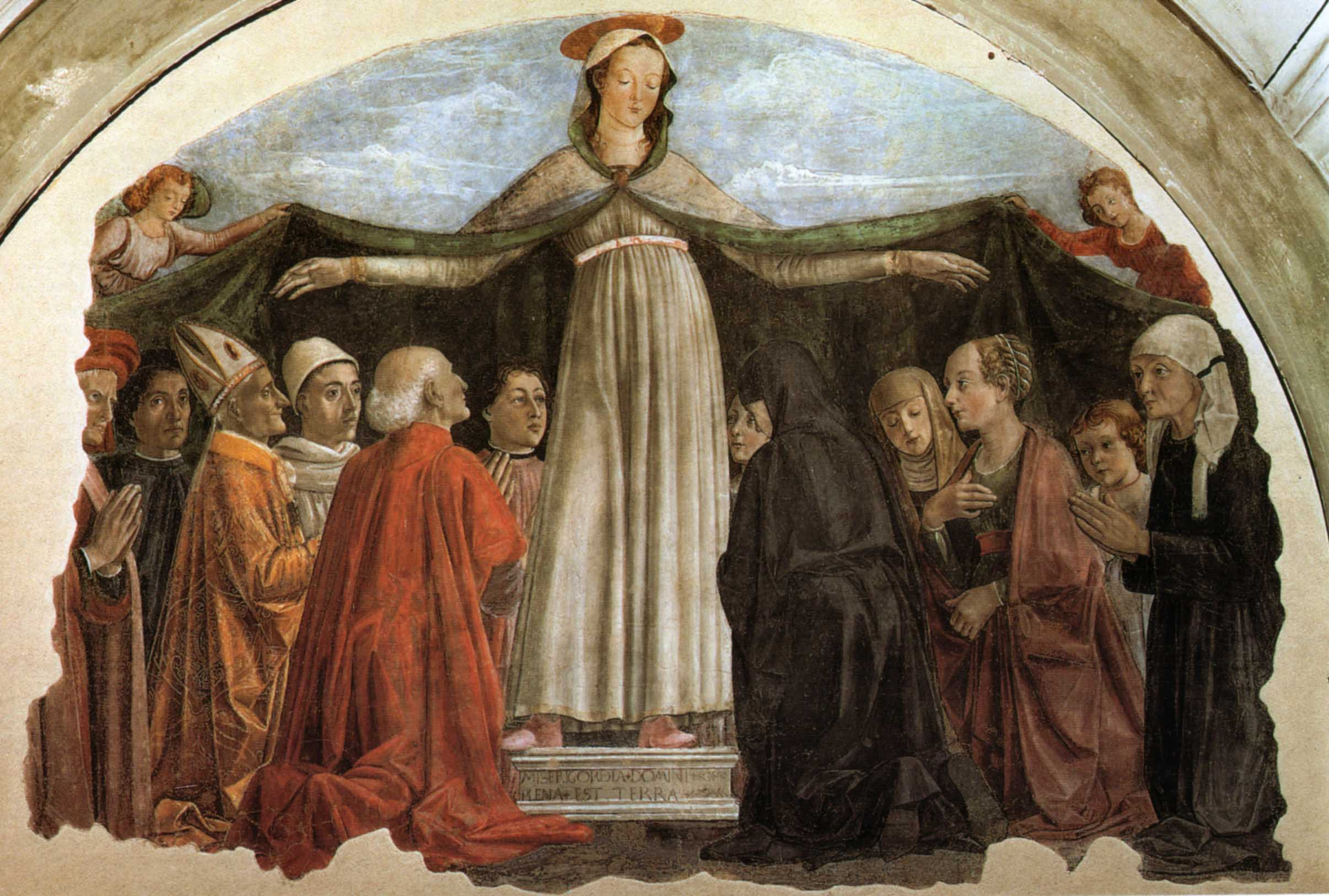 the Madonna della Misericordia protecting members of the Vespucci family, following Vasari a portrait of Amerigo Vespucci is left from the Madonna and Simonetta Vespucci (blond with uncovered hair)